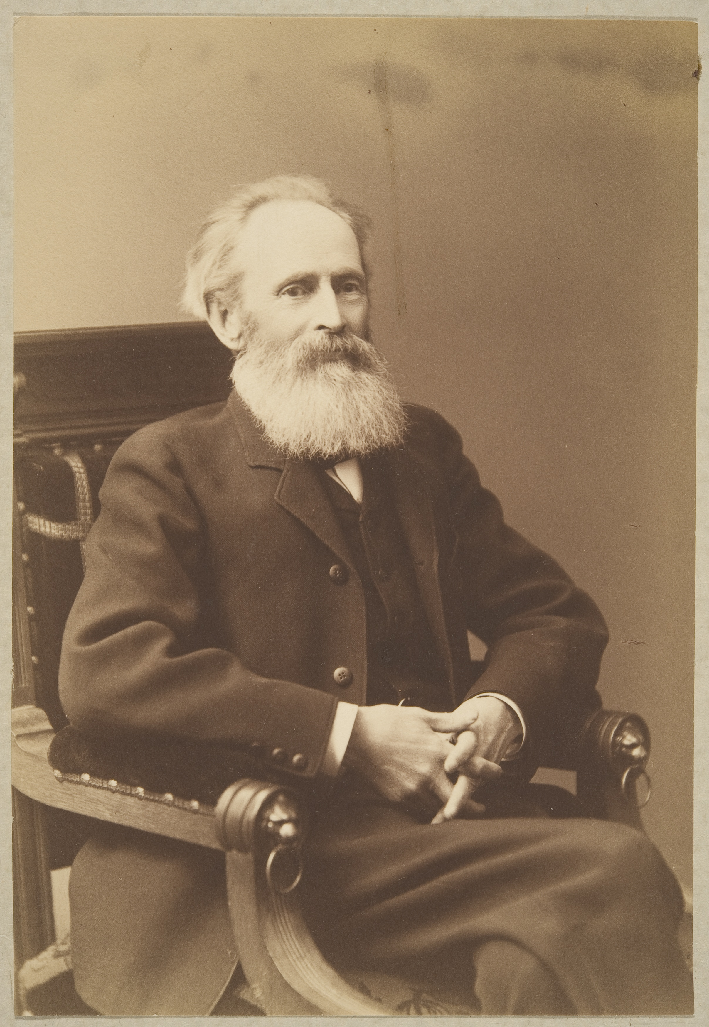 Photograph of the Finnish senator Fredrik Stjernvall (1845–1916).